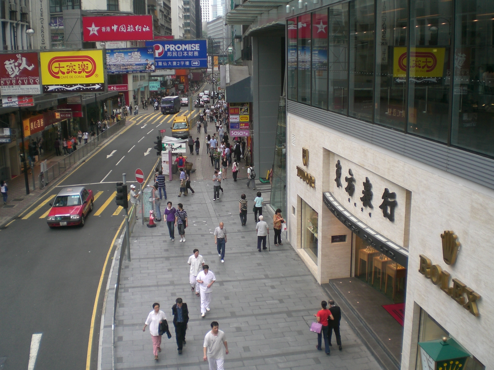 東方表行, 皇后大道中, Queen's Road Central